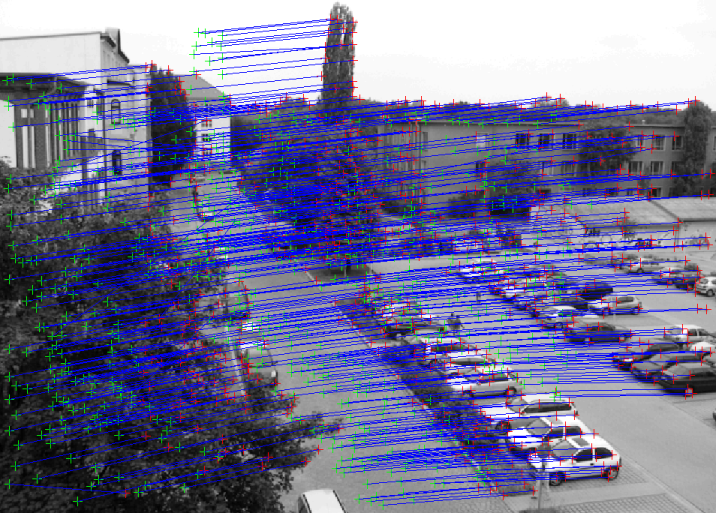 Result of the fundamental matrix computation